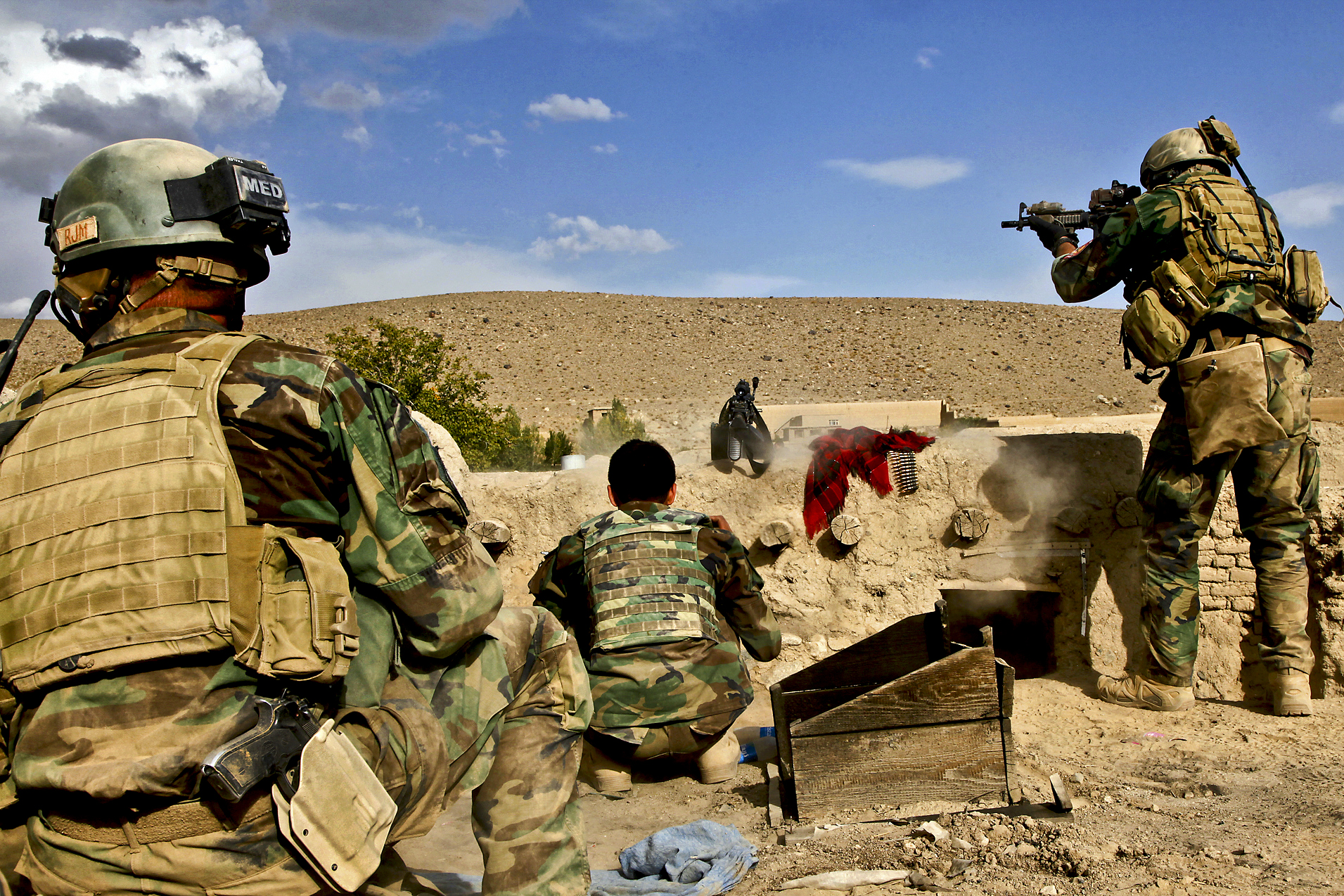 A U.S. Special Operations Forces team member fires at an enemy sniper position during a clearing operation in Chak district in Afghanistan's Wardak province, Oct. 9, 2011. Team members and Afghan commandos conducted the operation to disrupt insurgent activity in the area. U.S. Army photo by Staff Sgt. Kaily Brown